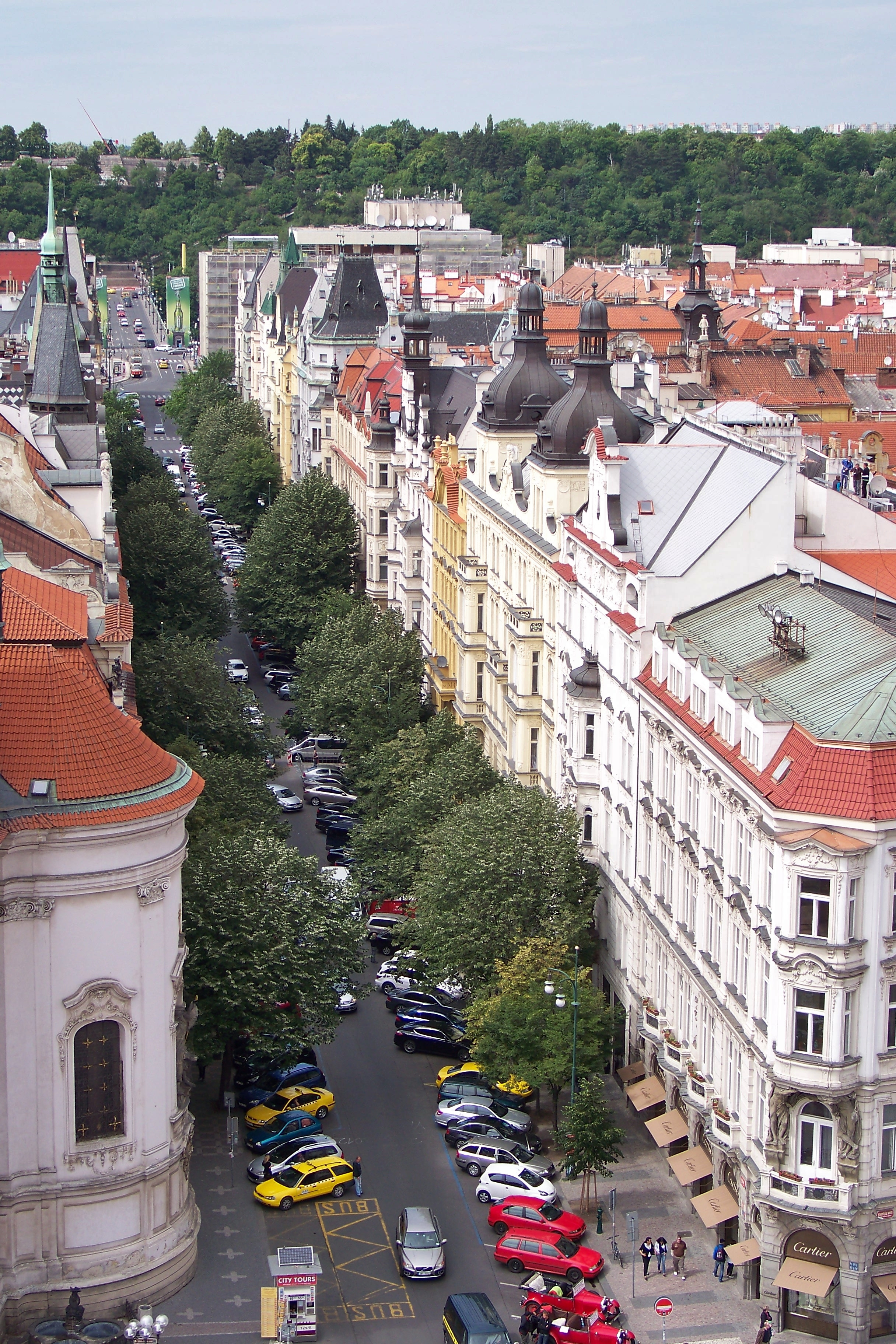 A view of Pařížská Street and its impressive architecture in Prague as seen from the Old Town Hall Tower.